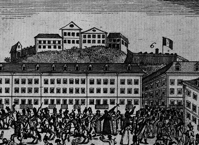 "View of the Rossio Square, in which is depicted the turmoil and terror of the French during the Feast of Corpus Christi, on the year 1808, when they tumultuously dropped their Weapons and abandoned their Artillery due to the fright the People caused them and the rumours they heard: the English have arrived."